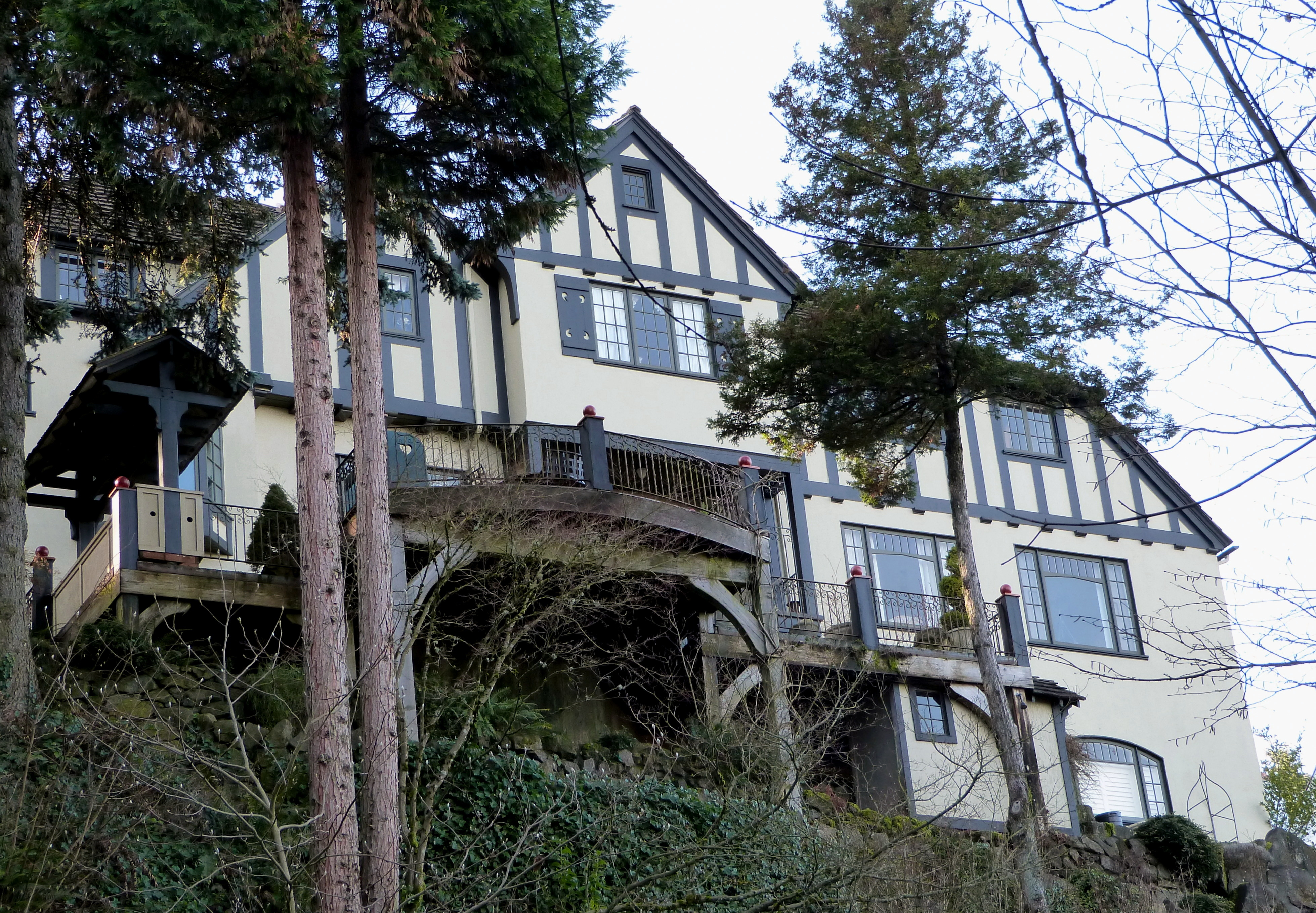 The historic Isaac Neuberger House (built 1937), located at 630 Northwest Alpine Terrace in Portland, Oregon, United States, is listed on the US National Register of Historic Places. This rear view is seen from NW Ariel Terrace.